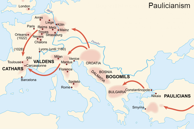 Paulicianism and Europe. Armenian - Պաւղիկեաններ